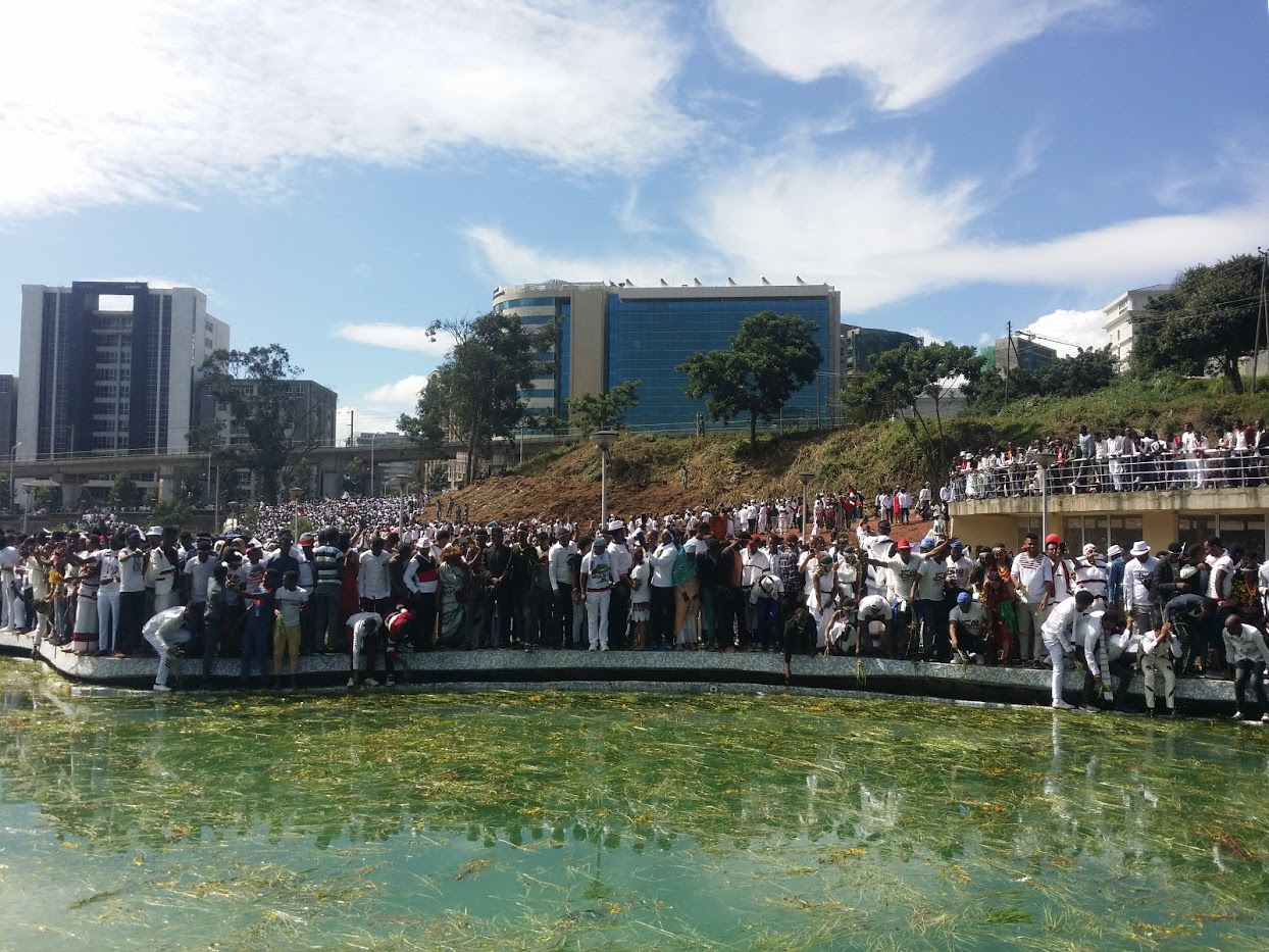 Irreecha is a thanksgiving festival celebrated every year. Oromo people gather from all places to the sacred lake and sprinkle the water to their body. In 2019, Irreecha was celebrated at artificial lake for the first time due to the drying up of lake. This photo has been taken in the country: Ethiopia